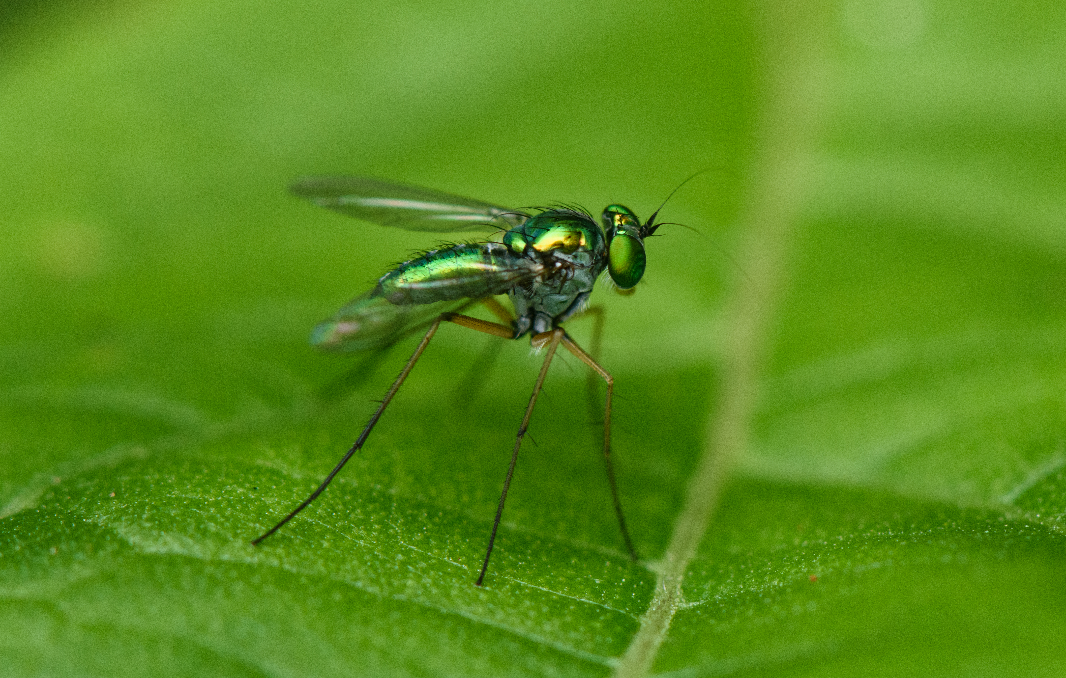 Condylostylus sipho from kottayam kerala